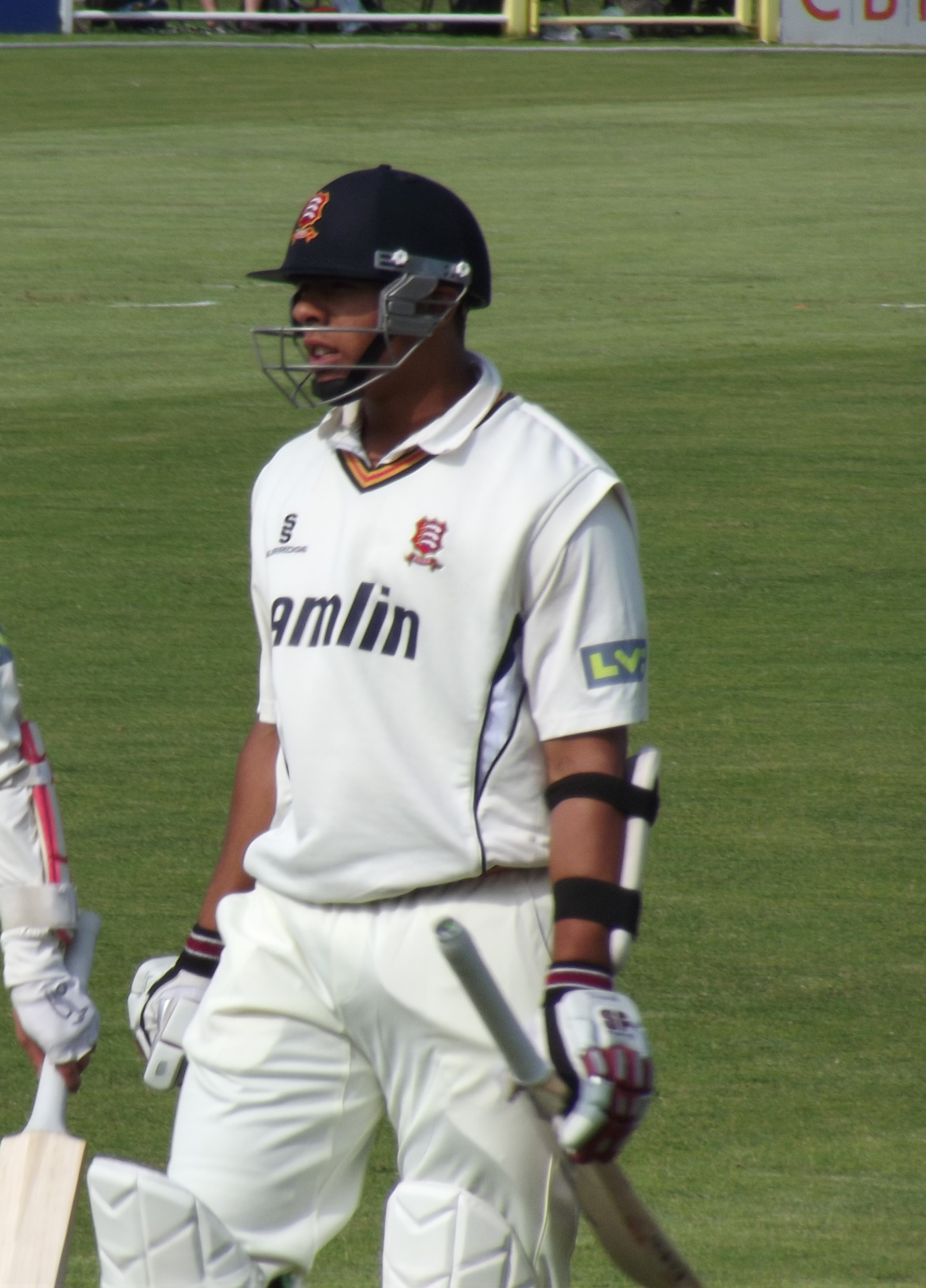 Tom Craddock and Tymal Mills at Garon Park, Southend